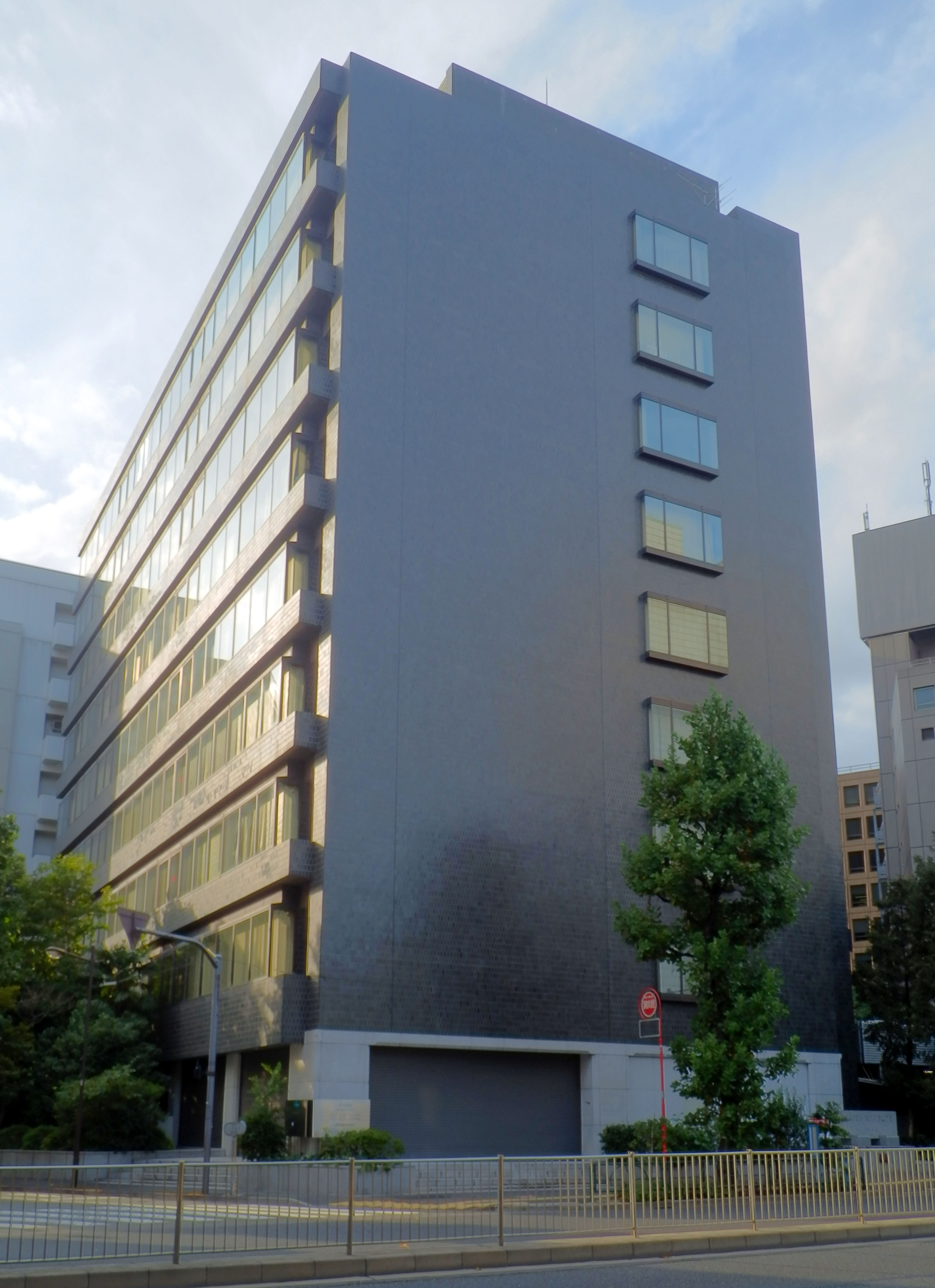 Aoba No.1 Building (Office building in Tokyo, Japan)